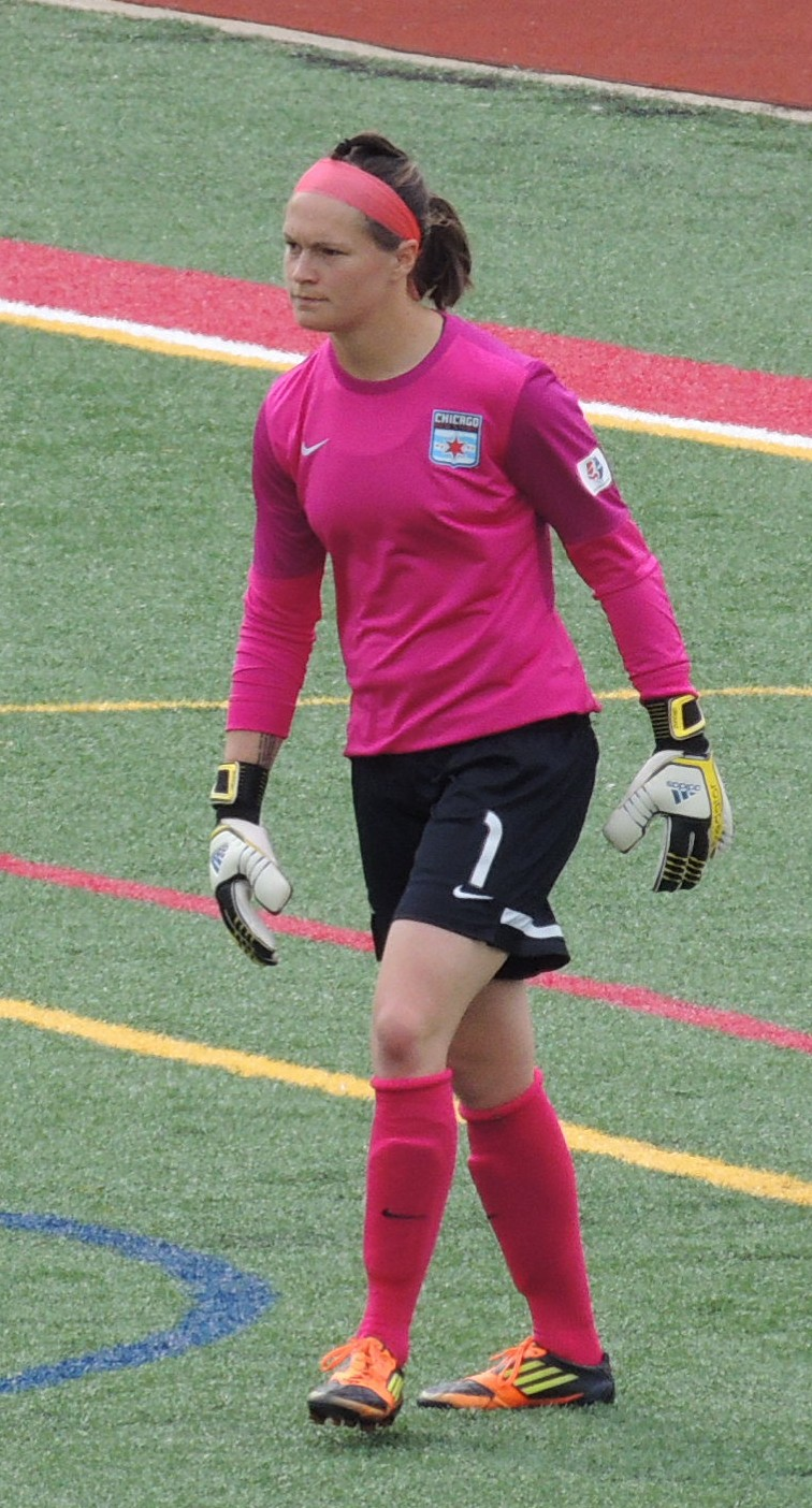 Erin Mcleod, soccer player; 2013-06-09 Chicago Red Stars vs Boston Breakers